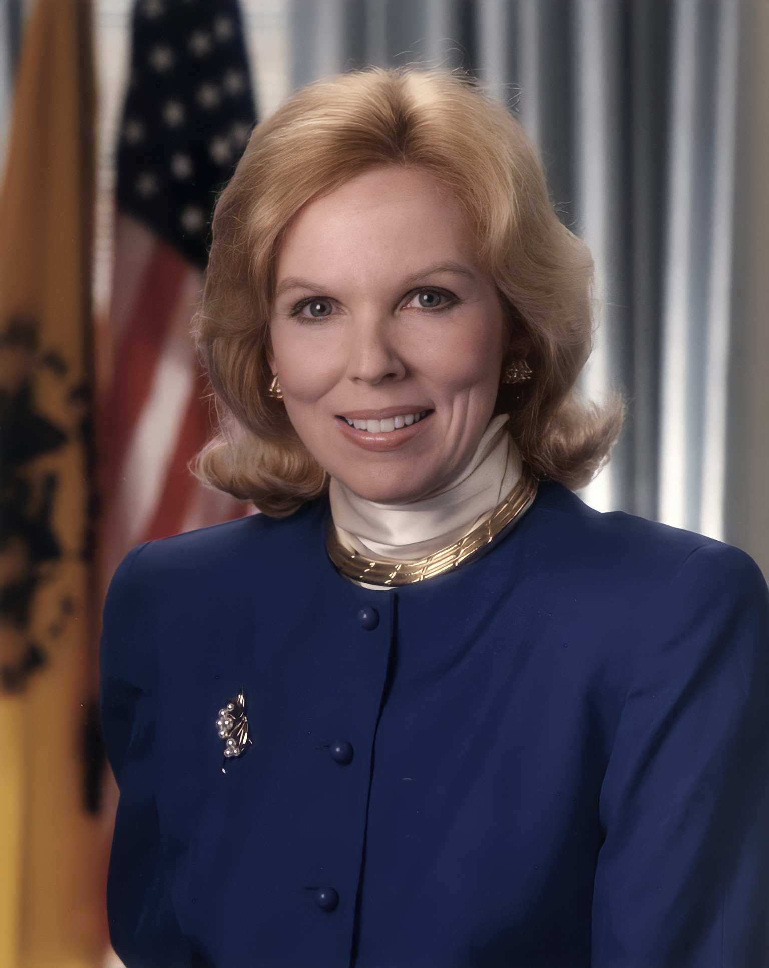 Bernadine Healy was appointed as the first woman director of the National Institutes of Health (1991-1993). Dr. Healy was a distinguished cardiologist and a dedicated and caring physician. She died in August 2011.